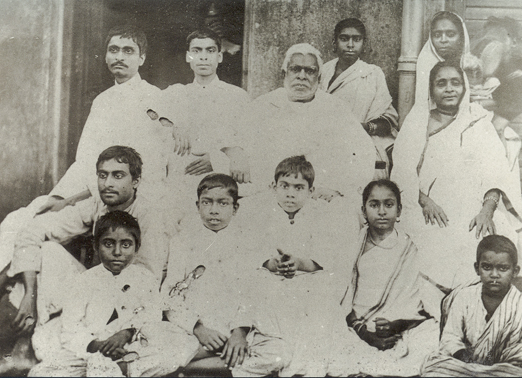 Bhaktivinoda Thakura with his family. Bimal Prasad is first from the left, top row